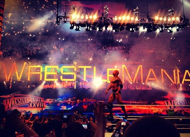 The Rock celebrating after his EPIC win over John Cena @ Wrestlemania 28